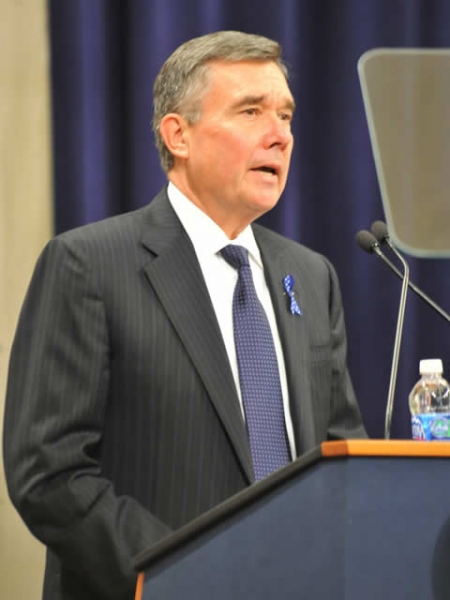 Office of National Drug Control Policy (ONDCP) Director Gil Kerlikowske delivers closing remarks at the Drug Endangered Children Task Force event